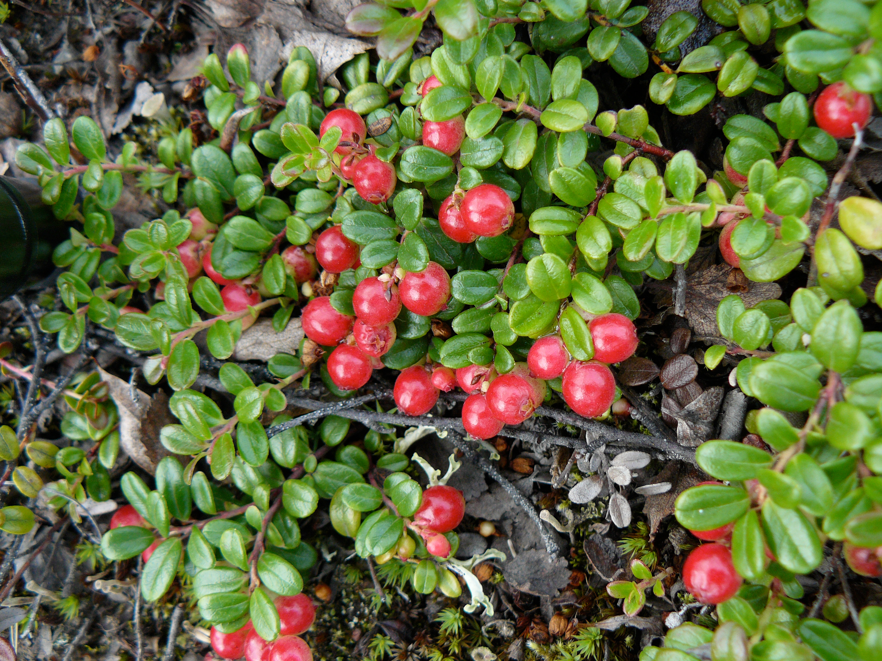 Lingonberry Vaccinium vitis-idaea var. minus foliage and fruit. Denali Highway, Alaska.